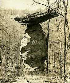 Photo of Jug Rock from old postcard (Detail) URL: [1] (original) Believed